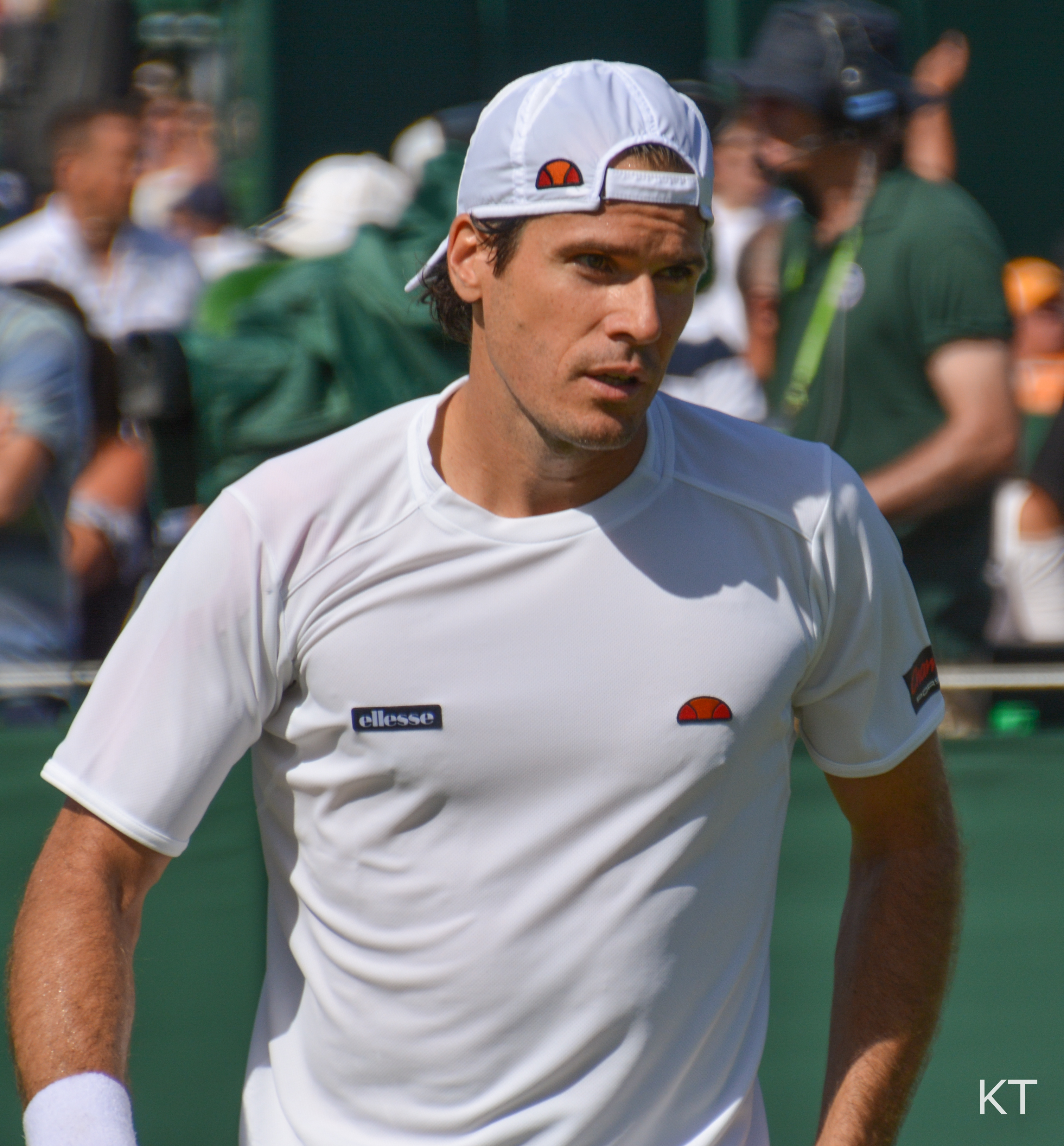 Tommy Haas v Dusan Lajovic, Day 1 of Wimbledon 2015.